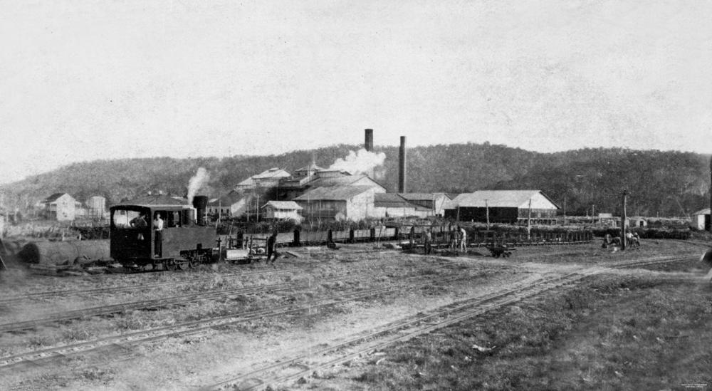 Plane Creek Sugar Mill, 1928. View of the Plane Creek Sugar Mill. The locomotive in the foreground was built in Munich, Germany by Maffei in 1911 (builder's number 3677) The empty cane trucks on the same line were two foot gauge trucks. Behind the locomotive are lines of Queensland Railway trucks fiilled with cane. Much of the cane supplied to Plane Creek Mill at this time came on the government railway.The Plane Creek mill, now owned by CSR, commenced operating in 1896.